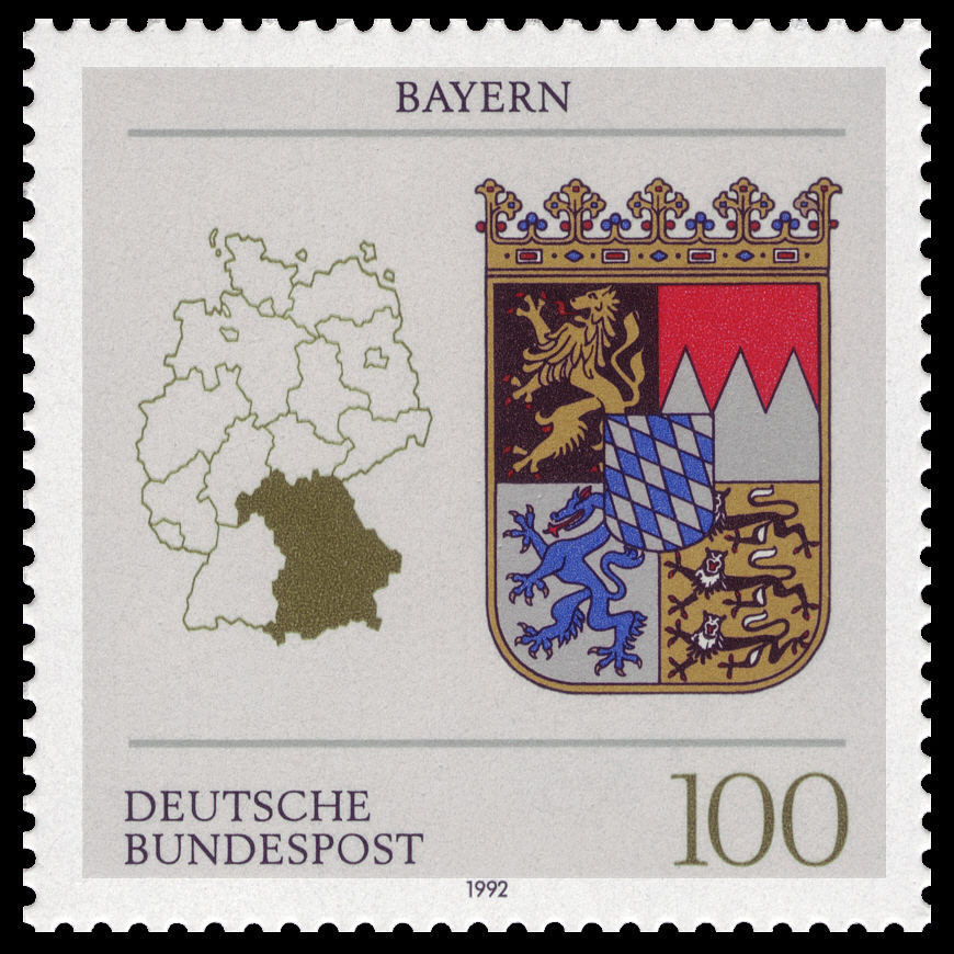 Coats of arms of the 16 states of Germany Ausgabepreis: 100 Pfennig First Day of Issue / Erstausgabetag: 12. März 1992 Michel-Katalog-Nr: 1587 Designer: Jünger